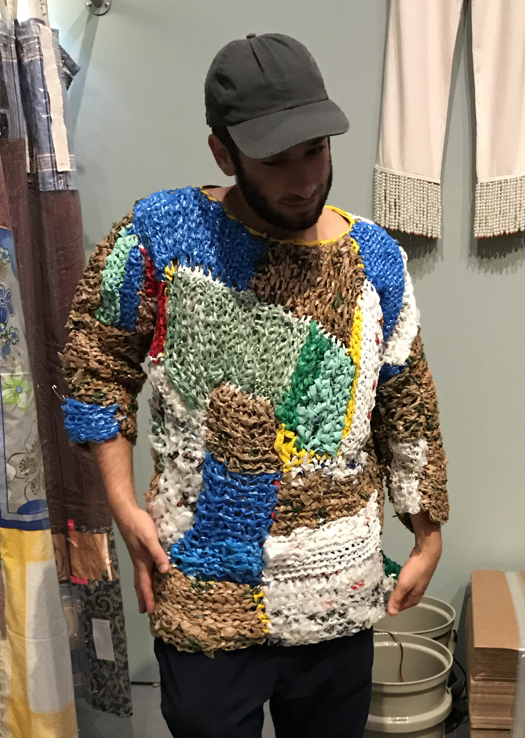 A man wearing a colorful sweater knit from plastic yarn by the fashion label Eckhaus Latta.